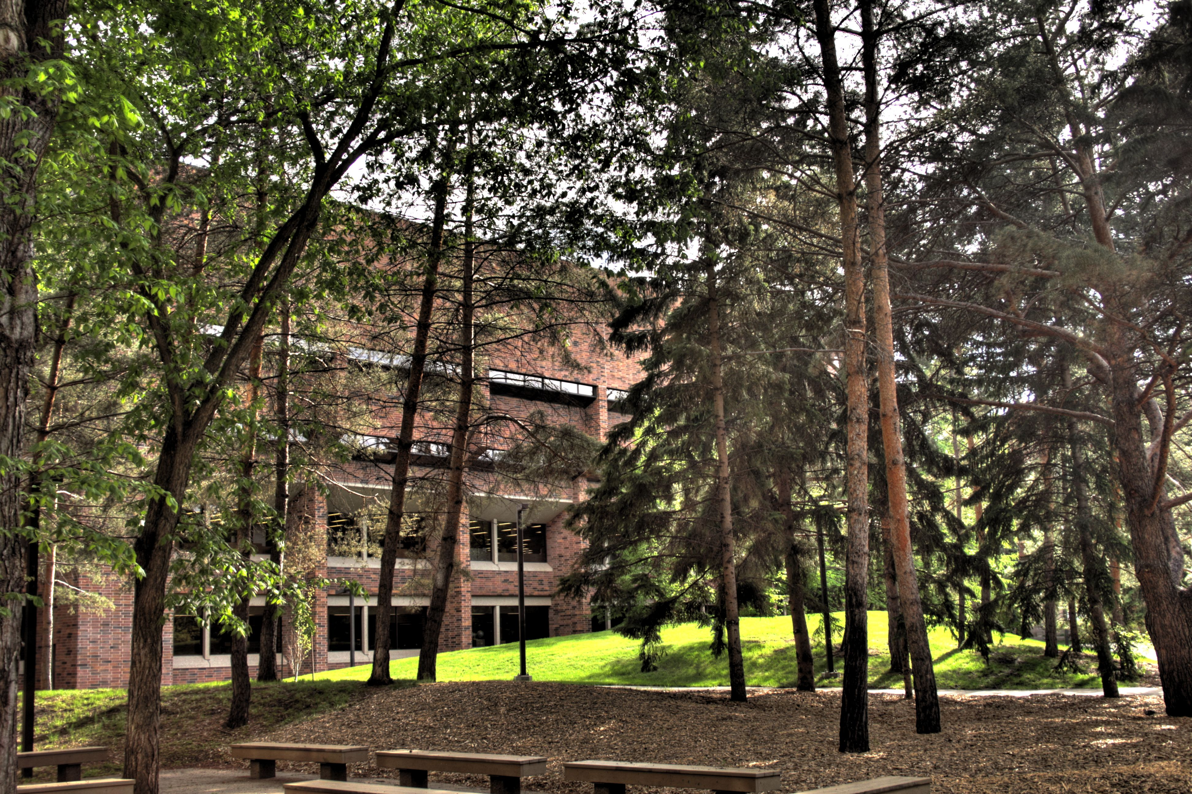 View across the quad of the Rutherford Humanities and Social Sciences Library on the campus of the University of Alberta, Edmonton, Alberta, Canada.